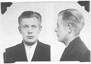 Mugshot of Duncan Scott-Ford